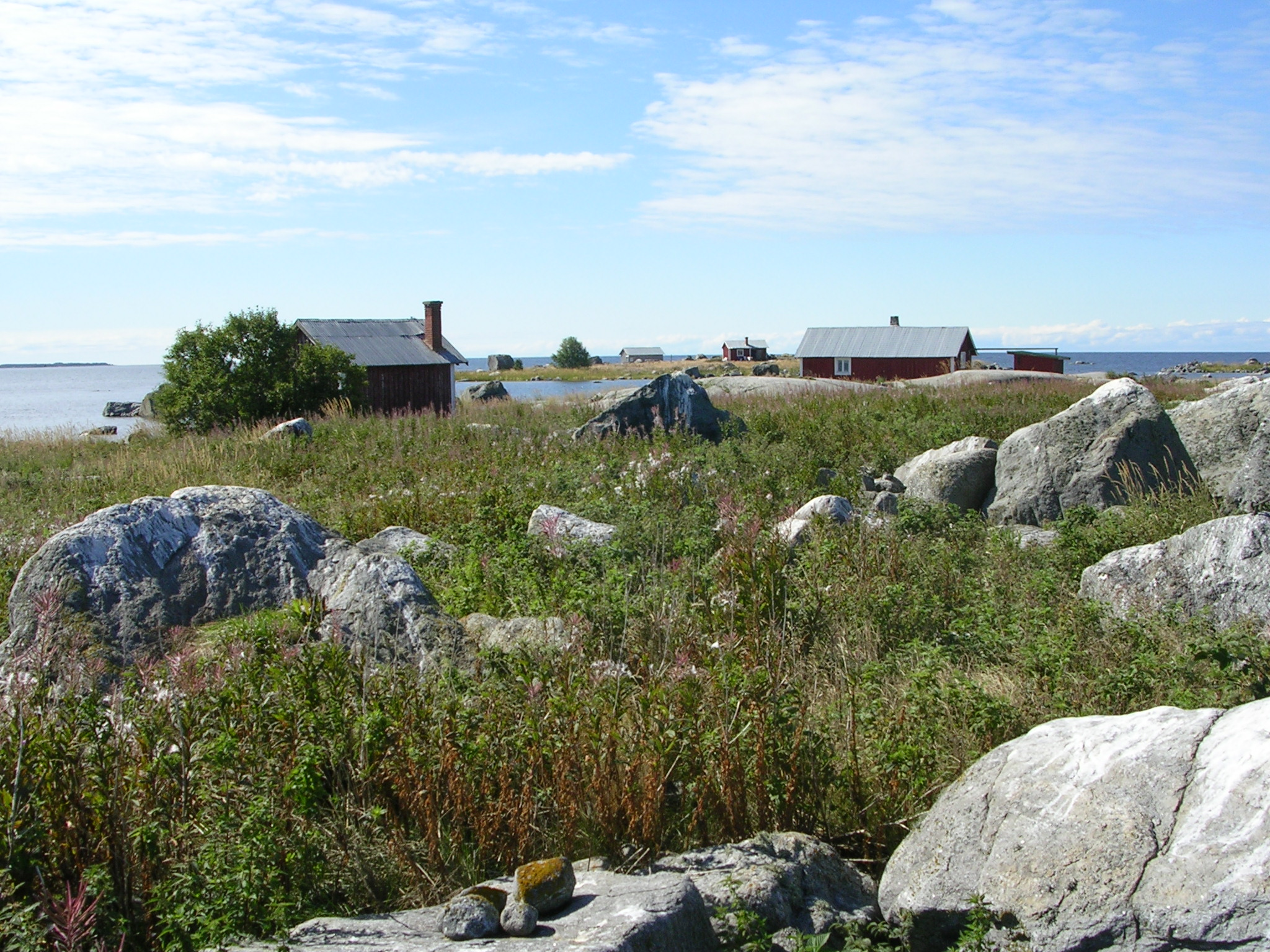 Typical cottage in the Replot archipelago.